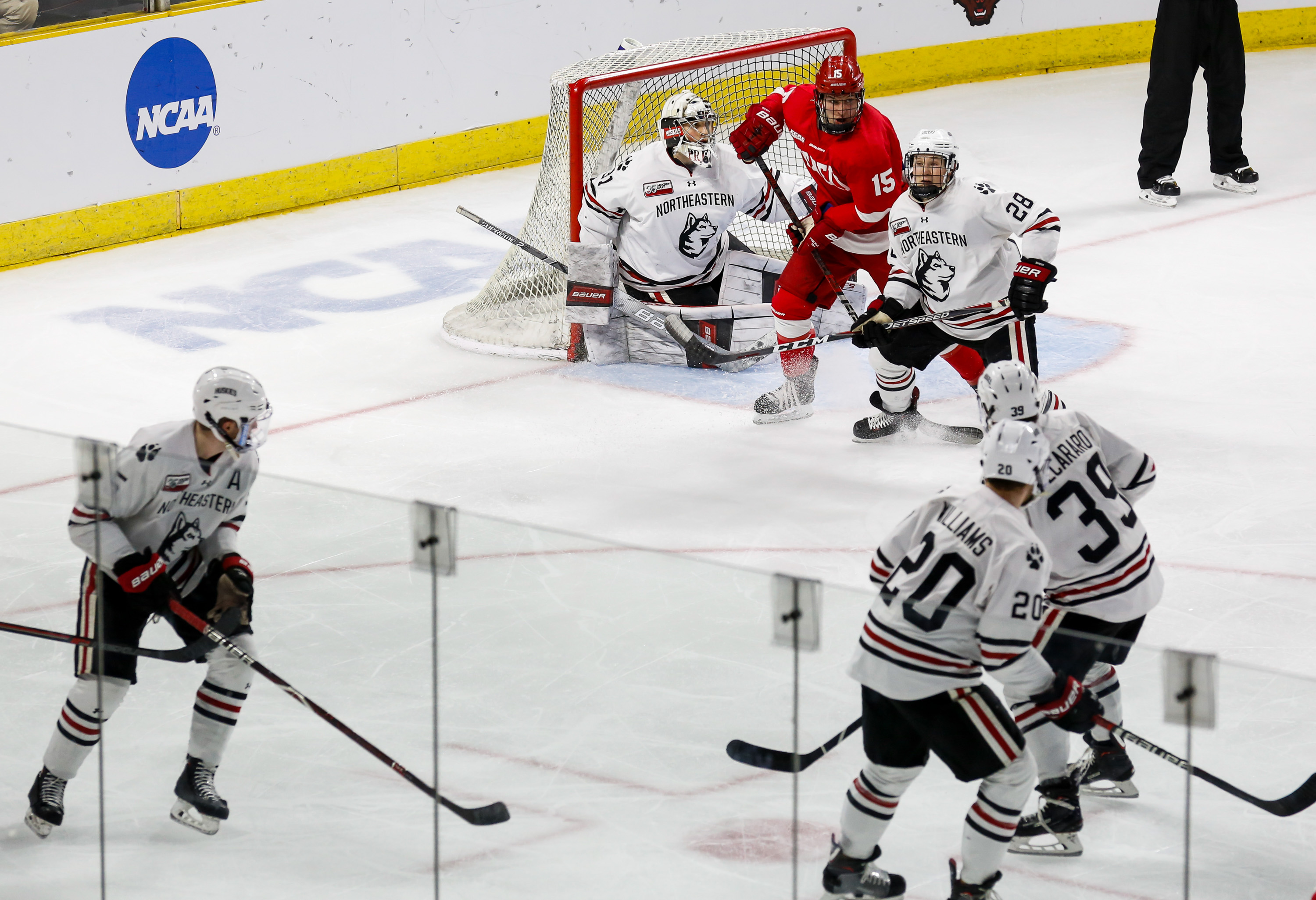 Cornell University won 5-1 over Northeastern in the second game of the East Regional at the Dunkin’ Donuts Center on Saturday March 30, 2019.